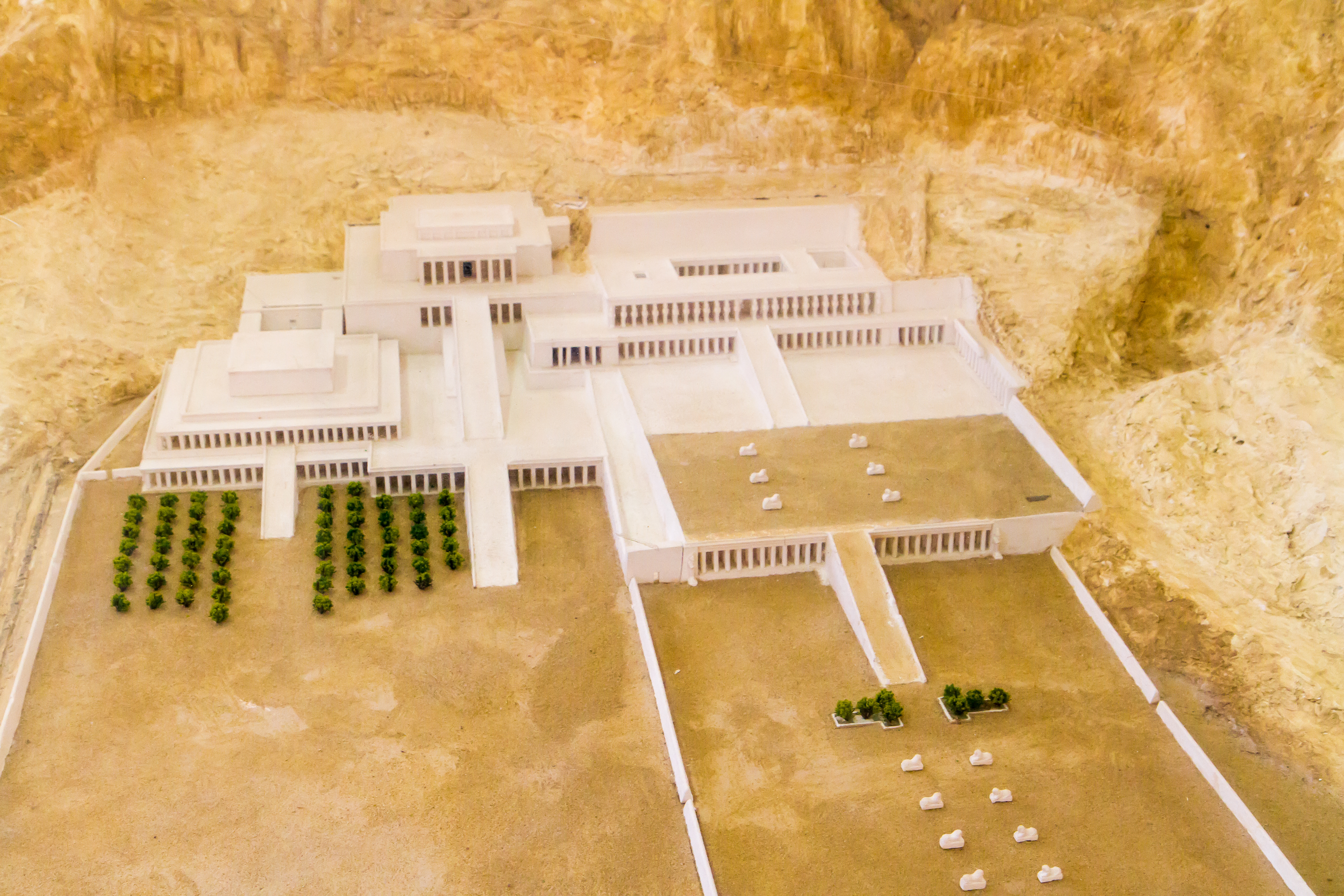 Qesm Al Wahat Al Khargah, New Valley Governorate, Egypt